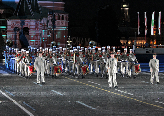 The French Foreign Legion Music Band participating in the Spasskaya Tower International Music Festival in 2011.